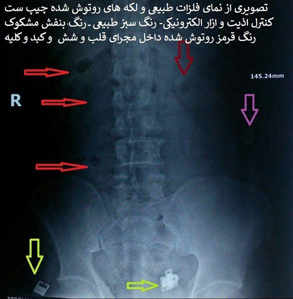 میکروچیت کشف شده با دستگاه نگاتیو دار